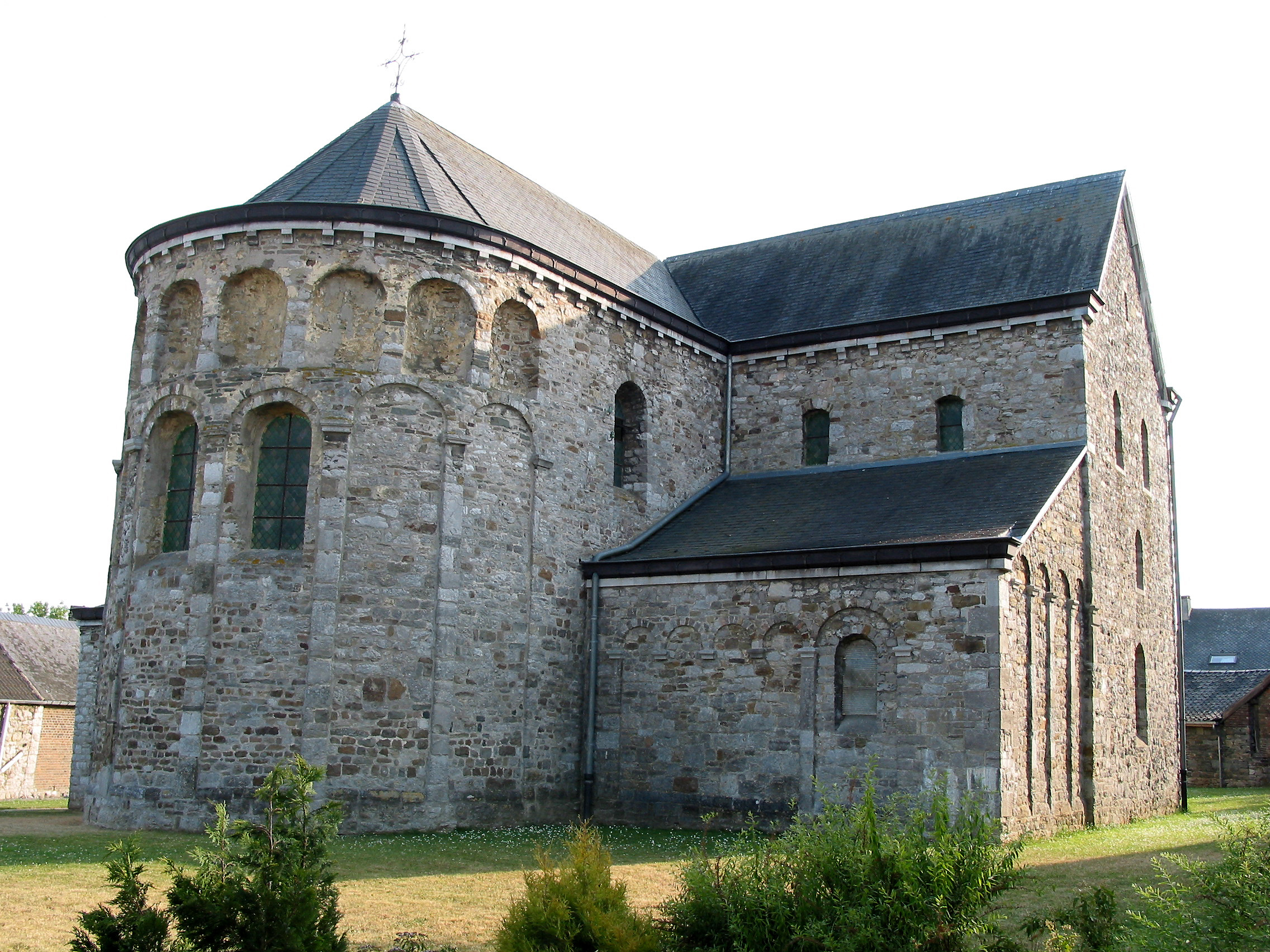 Xhignesse, apse and left transep of the Saint Peter's church (end of the XIth century).